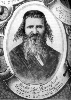 Rabbi Shlomo Ganzfried of Ungvar.